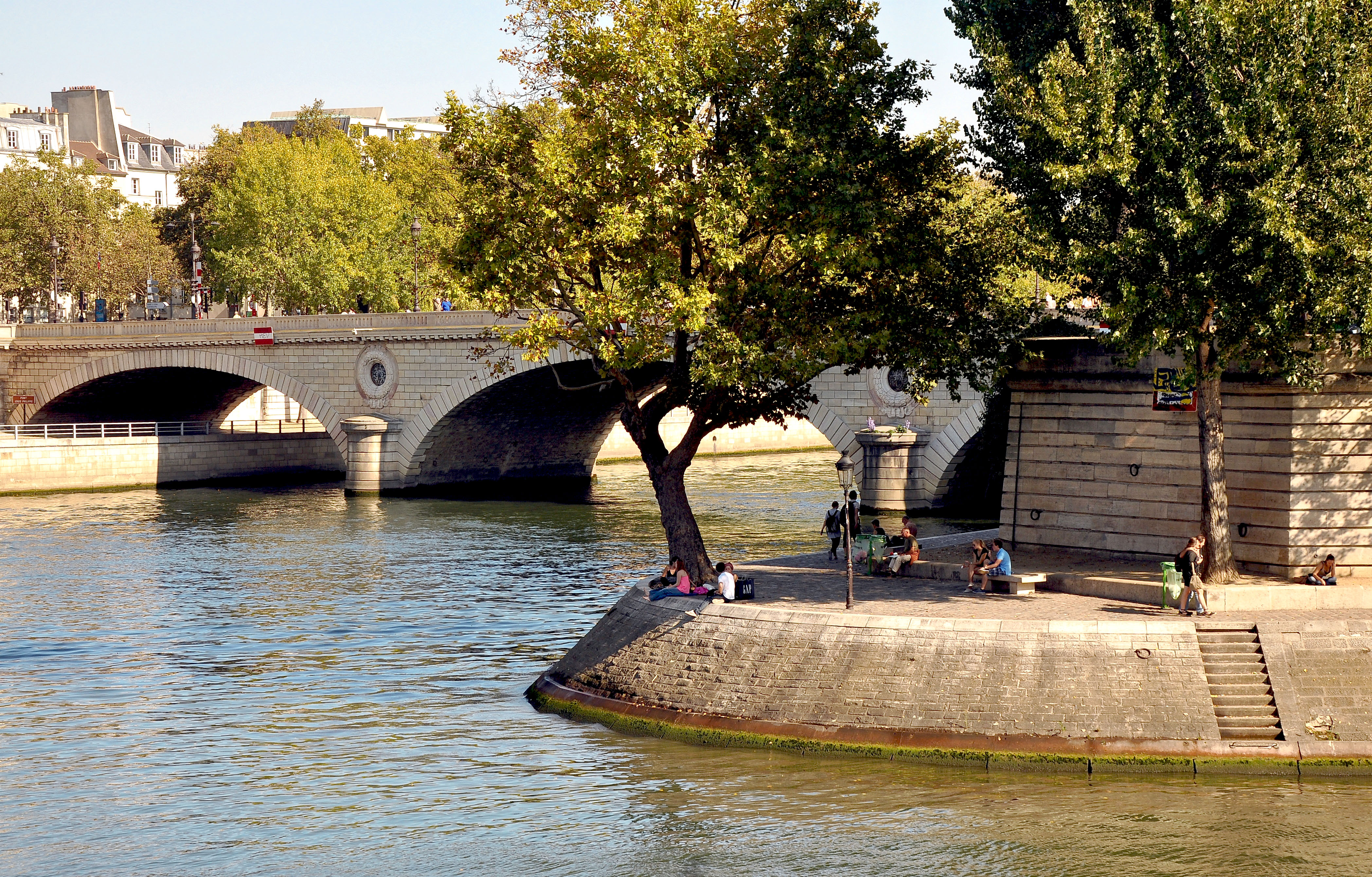 West point of île Saint-Louis and the Pont Louis-Philippe bridge in 4th arrondissement of Paris, France view from the street Quai aux Fleurs on the ile de la Cité island.